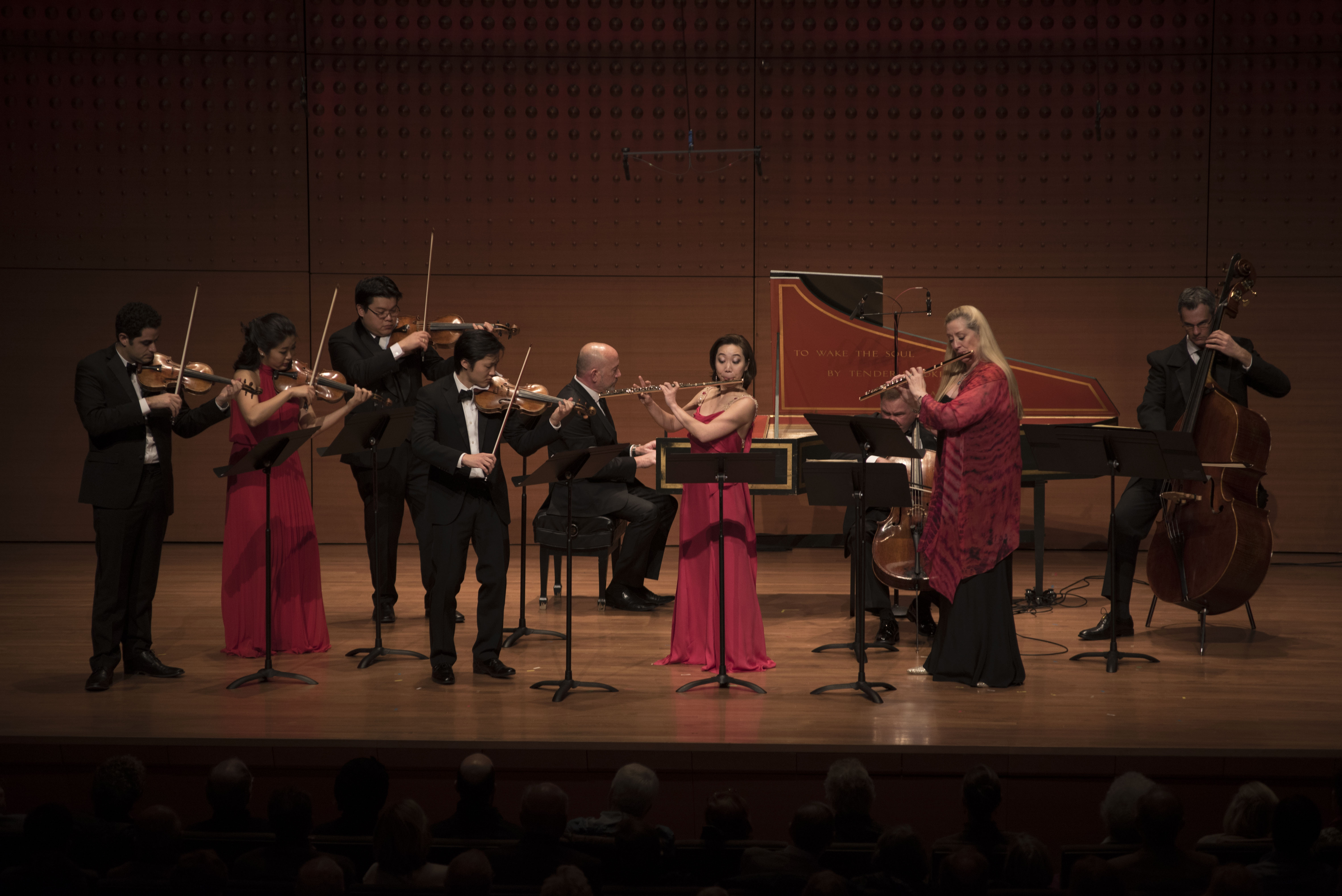 Chamber Music Society artists performing the Brandenburg Concertos in Alice Tully Hall.